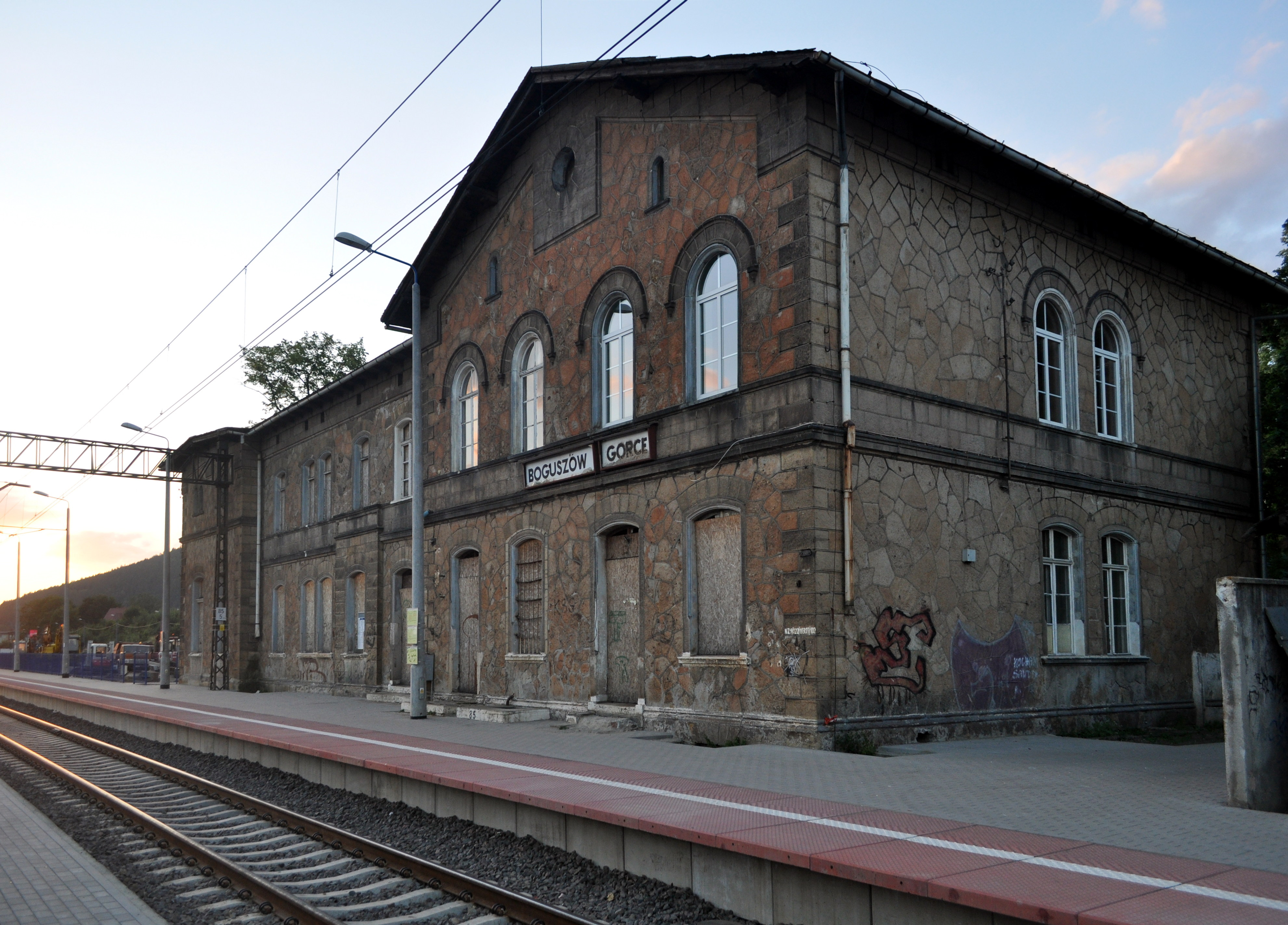 Train station in Boguszów-Gorce